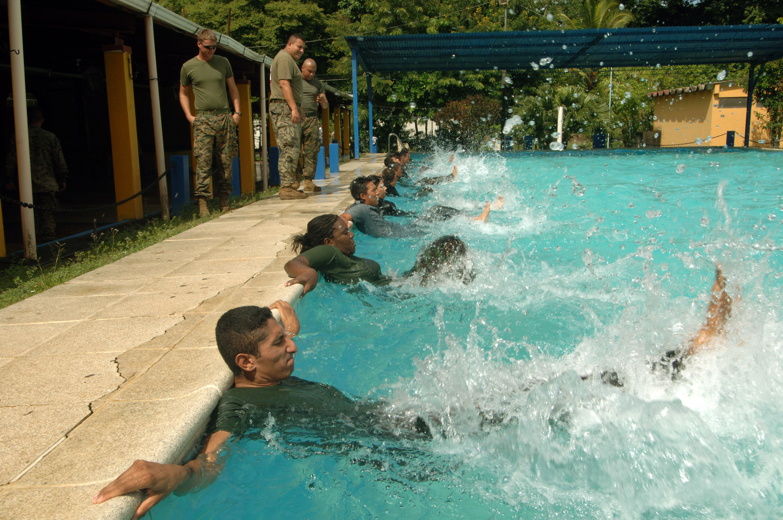 PUERTO BARRIOS, Guatemala (Aug. 10, 2007) - U.S. Marines assigned to a mobile training team observe Guatemalan sailors and marines conduct a series of aqua aerobics and exercises during Small Unit Tactics training. Task Group 40.9 is deployed under the operational control of U.S. Naval Forces Southern Command (NAVSO) for the Global Fleet Station (GFS) pilot deployment to the Caribbean Basin and Central America. The mission is to conduct a broad range of theater security cooperation activities with regional maritime services. This deployment is designed to validate the GFS concept for the Navy and support U.S. Southern Command objectives for its area of responsibility by enhancing cooperative partnerships with regional maritime services and improving operational readiness for the participating partner nations. U.S. Navy photo by Mass Communication Specialist 1st Class David Hoffman (RELEASED)